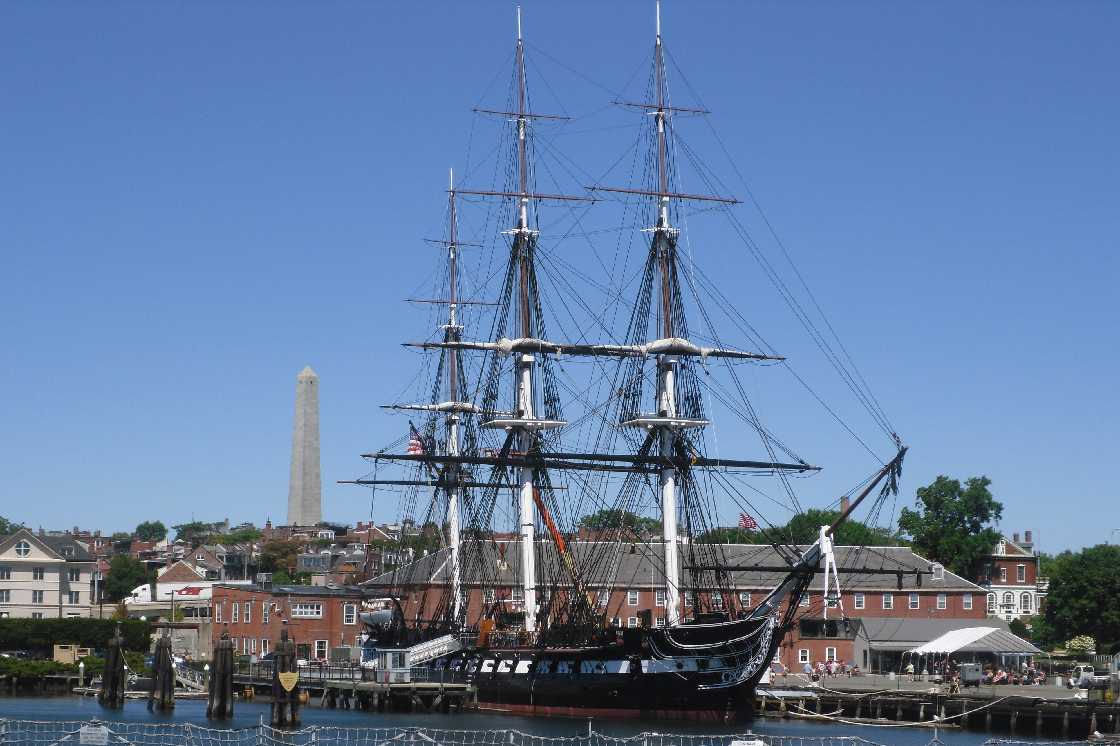 The USS Constitution in the harbor of Boston, Massachusetts in the summer of 2011. Behind the ship you can see the Bnker Hill monument